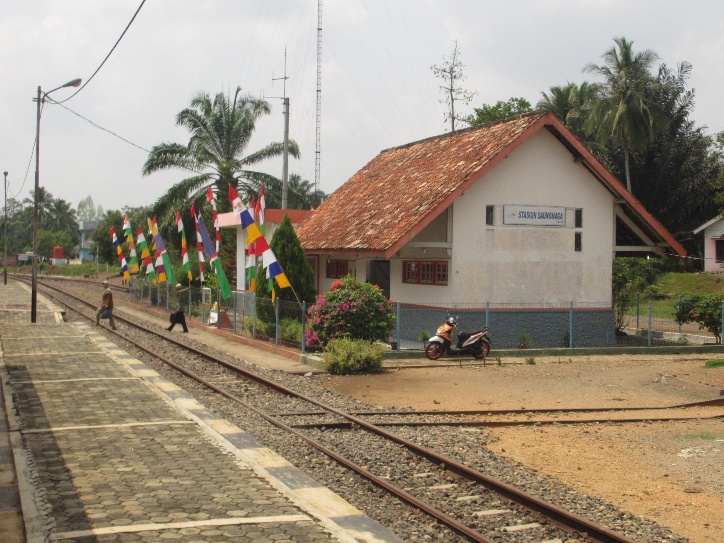 Saungnaga Railway Station.